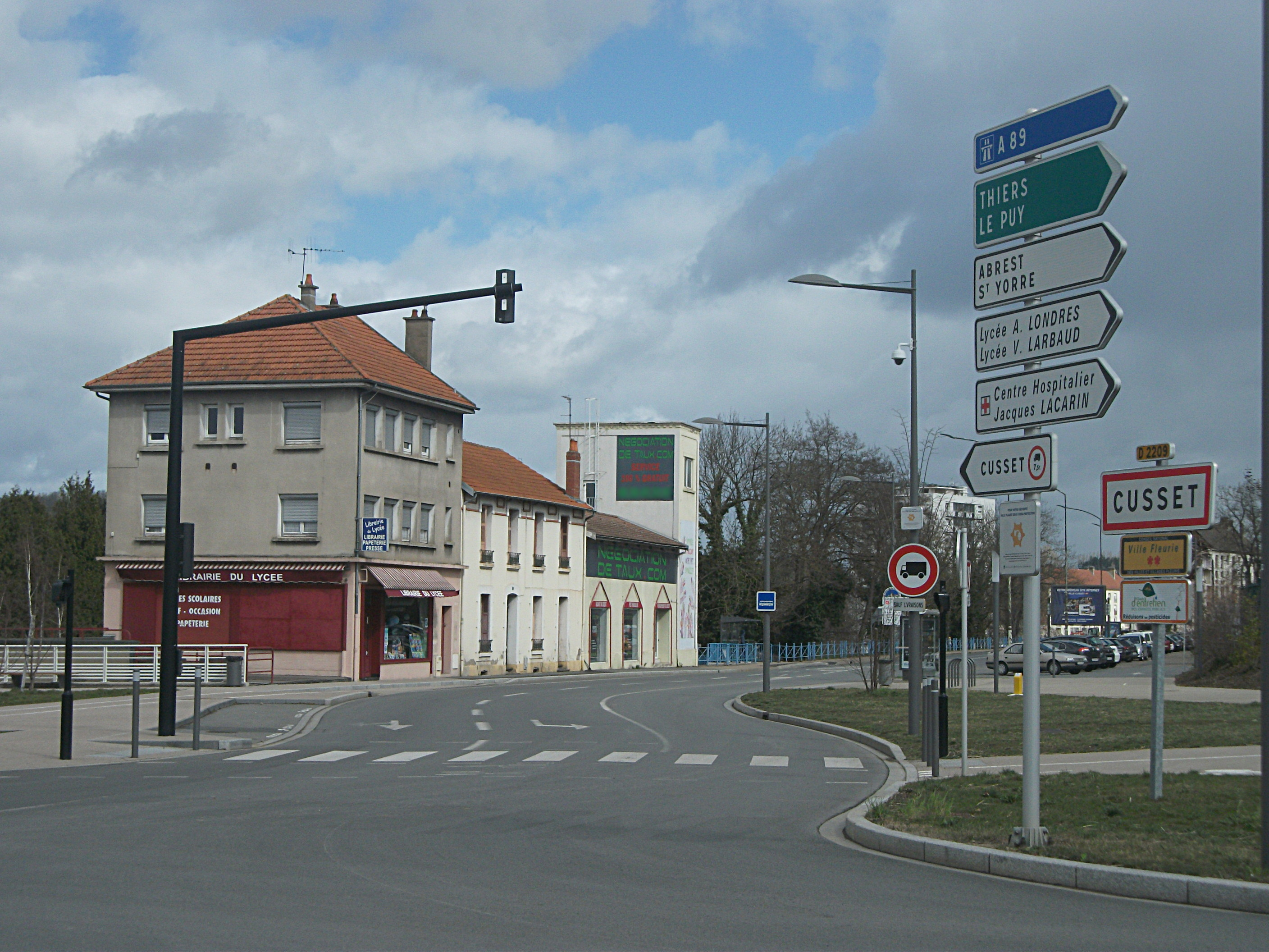 Entrance of Cusset by departmental road 2209. Avenue de Vichy, after crossing Avenue de la Liberté. Signs: see below [17864]